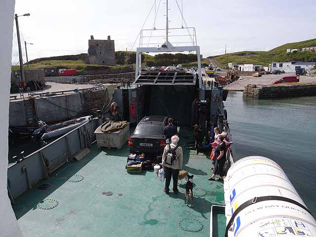 Coming into Clare Island The Clew Bay Queen approaching the slipway at Clare Island. Although the boat has a roll-on roll-off facility, cars are not regularly carried to the island. Granuaile's Castle can be seen to the left.